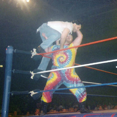 Pro wrestler Darryl Peterson, aka Maxx Payne, in his Man Mountain Rock persona at live WWF event in Ft Myers, FL.